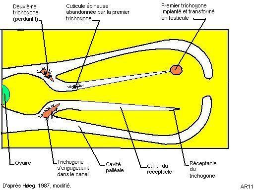 Diagrammatic section through a juvenile externa of Sacculina carcini showing trichogon stages.